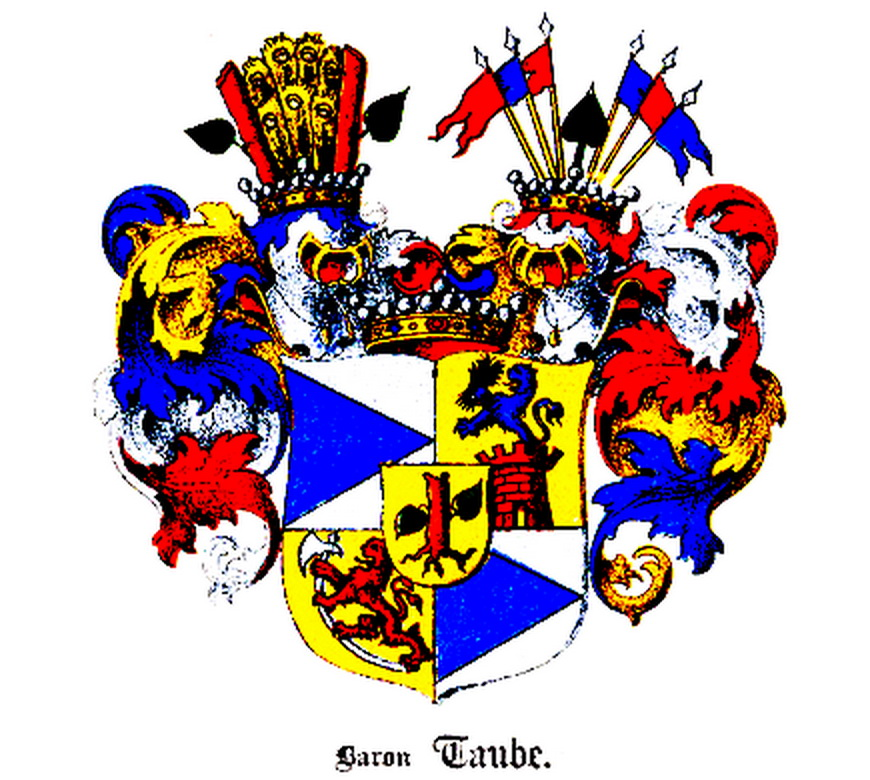 Coat of arms of Taube af Karlö family